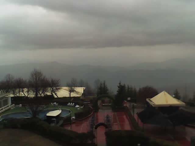 A rainy view of Murree Hills from Pearl Continental Bhurban in Murree, Pakistan.